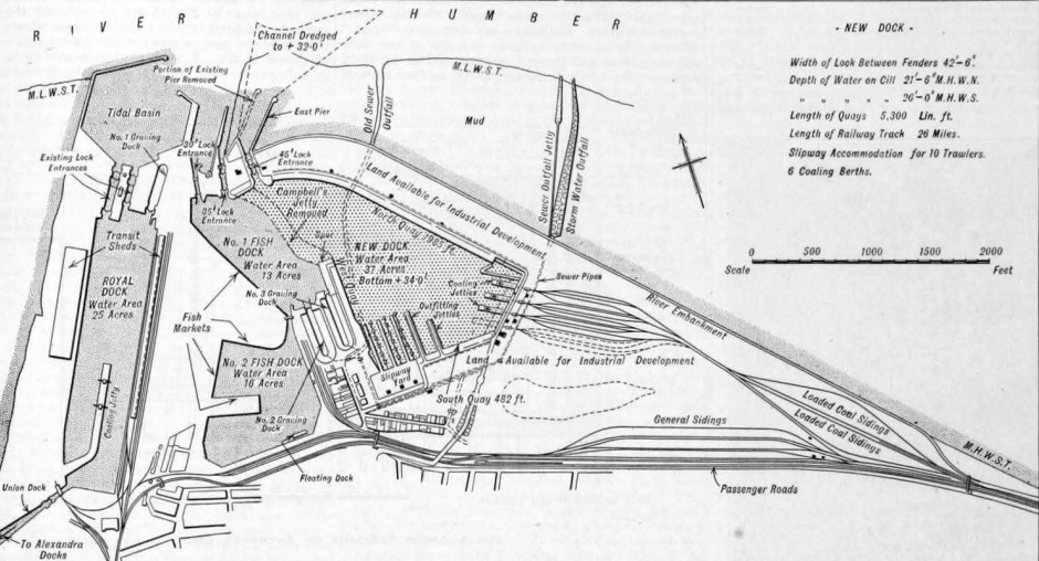 Diagram of No.3 (and No.1) fish dock, Grimsby c.1934 (as built) From: The New Fish Dock, Grimsby (No.I) (7 December 1934).